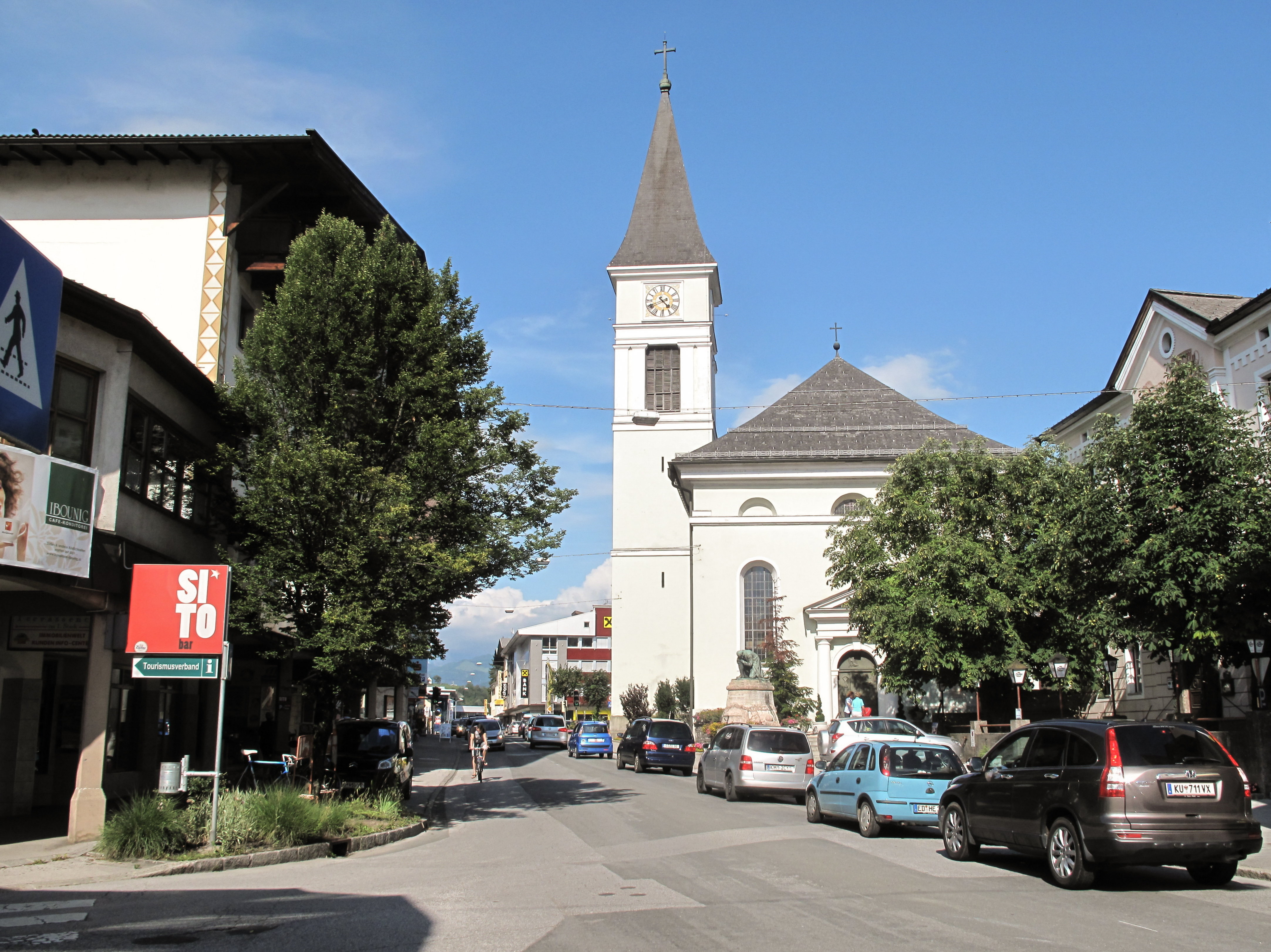 Wörgl, church: Stadtpfarrkirche Sankt Laurentius